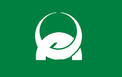 Flag of Sekigahara Gifu